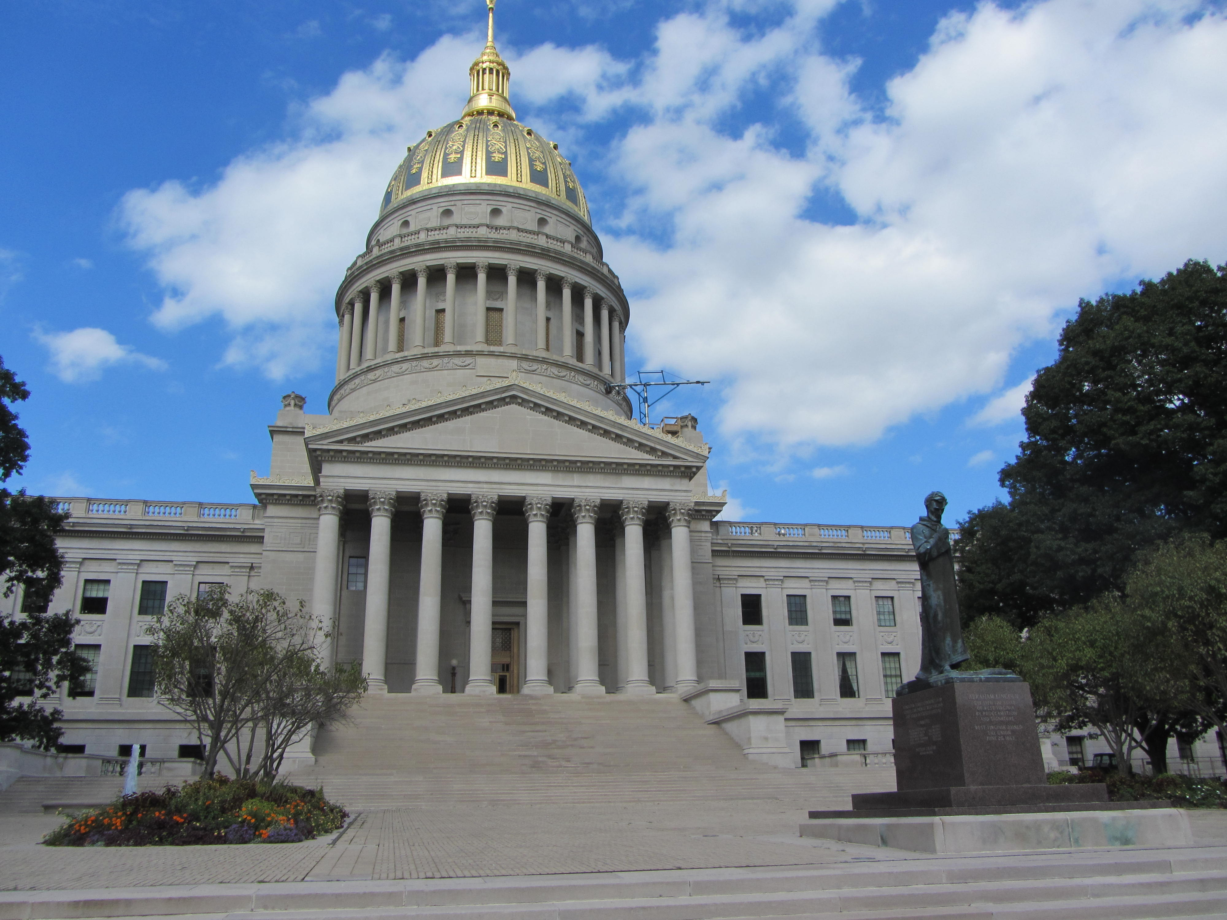 West Virginia State Capitol, Charleston, West Virginia, USA